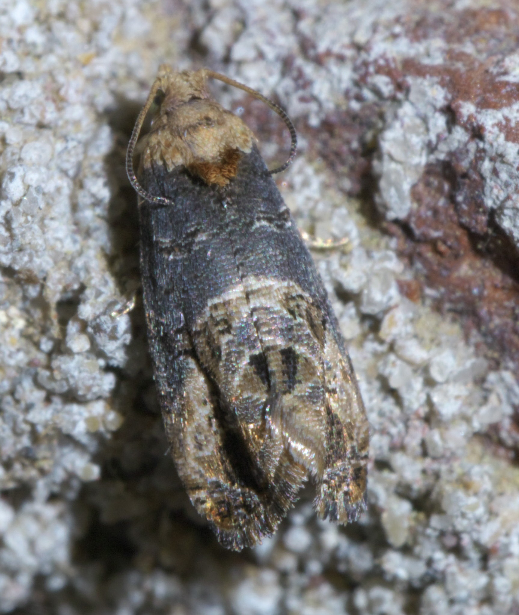 Paralobesia viteana, grape berry moth, Size: 5.9 mm, ID Confidence: 90